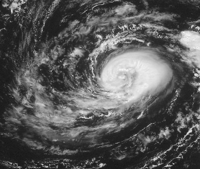 An image of Category 1 Hurricane Florence as taken by GOES satellite.